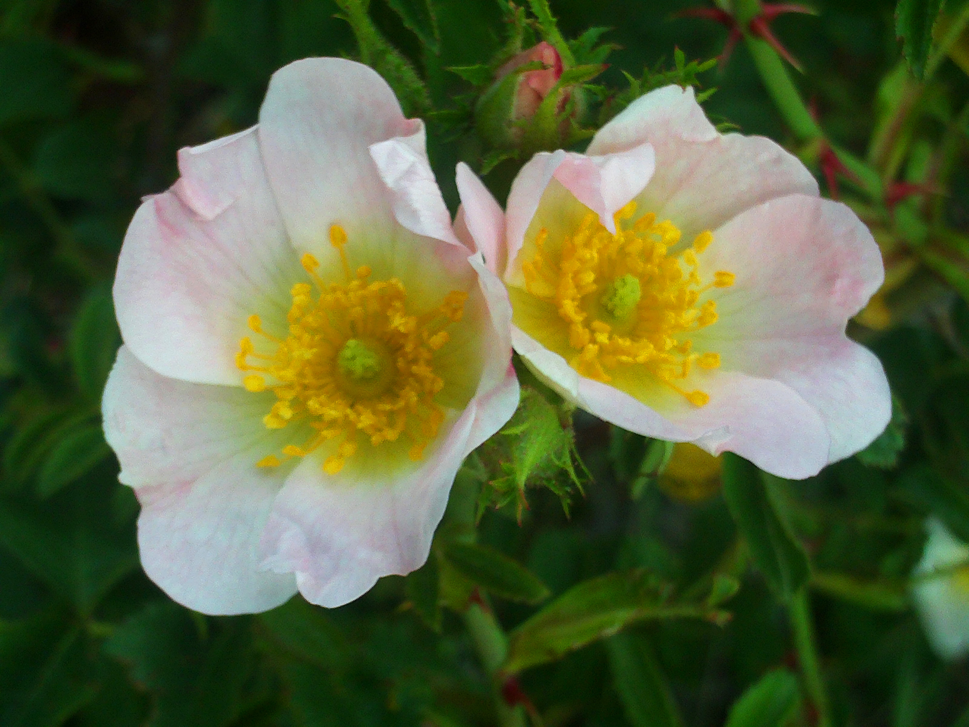 Rosa rubiginosa (syn. R. eglanteria) flowers close up, Sierra Madrona, Spain